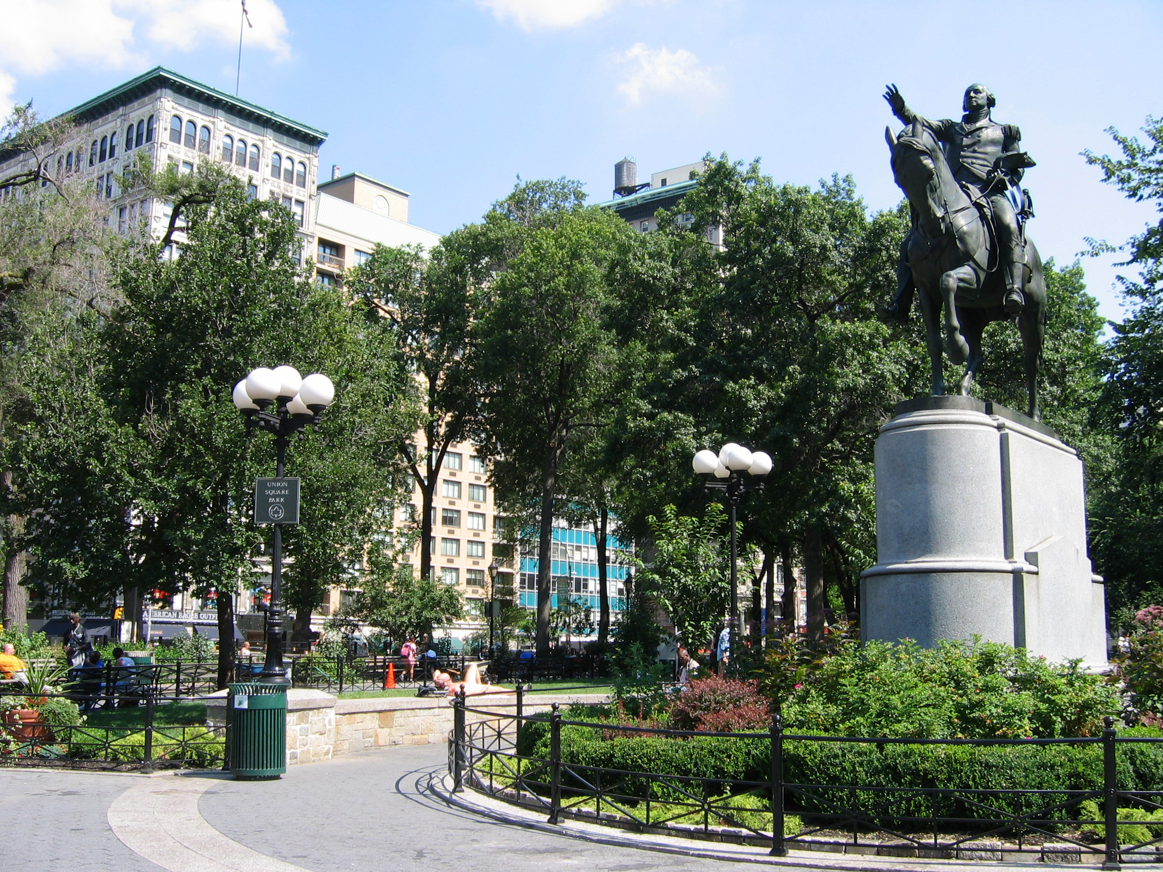 Union Square in New York City.